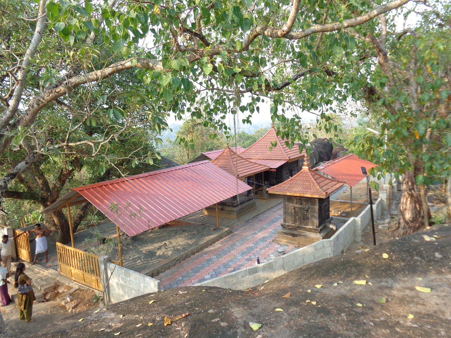 pandavanpara temple, chengannoor